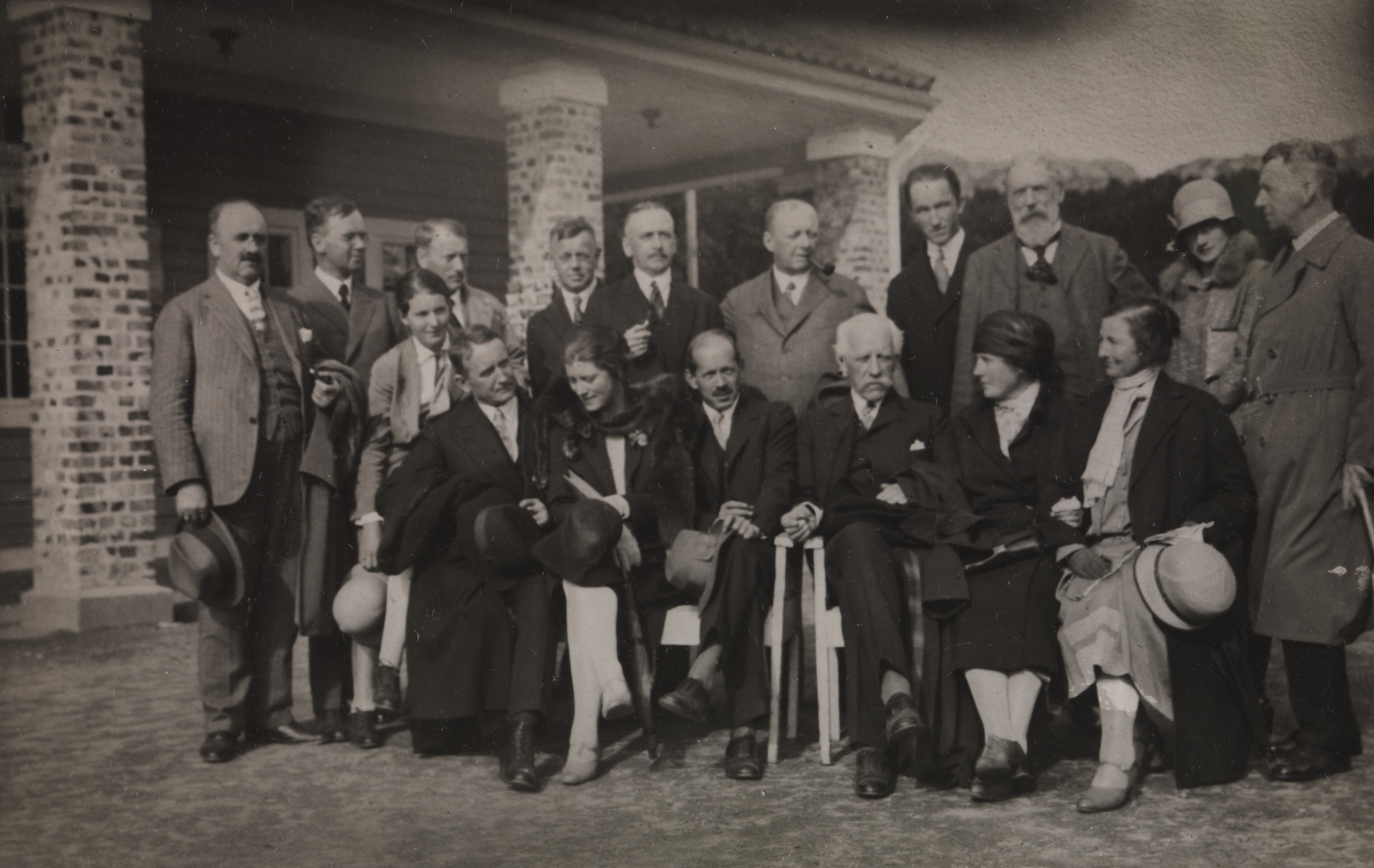 After a luncheon at Fløyen in connection with the opening of the Geophysical Institute in Bergen. Standing from the left: Vegard Hesselberg; Grethe Helland-Hansen; Devik; Johan Nordahl-Olsen; Undall; editor Jonas Strømer; J. Bjerknes; D´Arcy Thompson (Edinburgh); Irmelin Nansen; Sem Sæland. Sitting from the left: Bjørn Helland-Hansen; Liv Nansen Høyer; Otto Neumann Knoph Sverdrup; Fridtjof Nansen; Mirre Nordahl-Olsen and Mrs. Helland-Hansen.